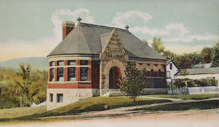 Pillsbury Free Library, Warner, New Hampshire. It opened in 1892.